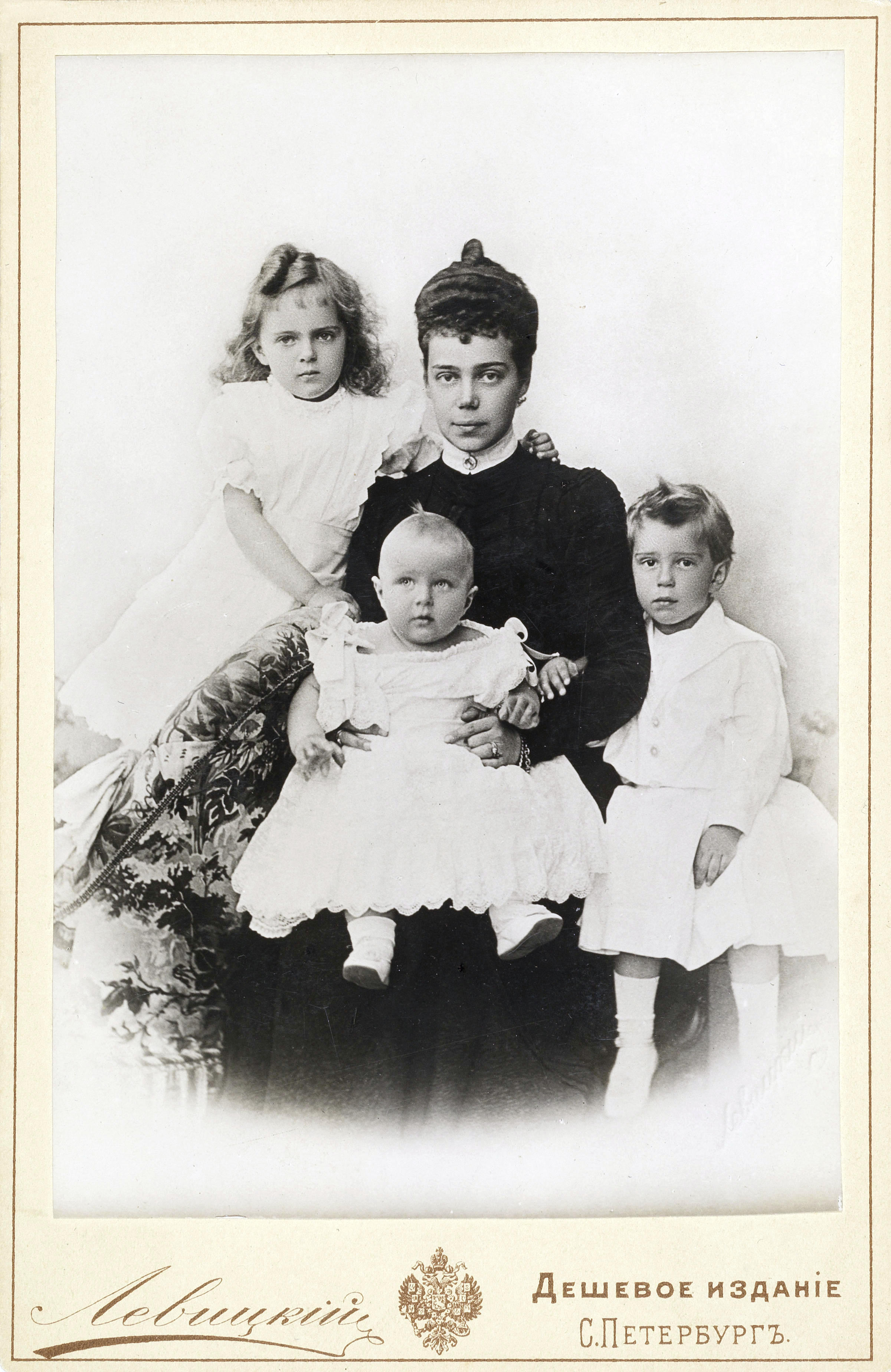 Grand Duchess Xenia Alexandrovna of Russia with her daughter Princess Irina Alexandrovna of Russia and the sons Princes Andrei Alexandrovich of Russia and Feodor Alexandrovich of Russia.